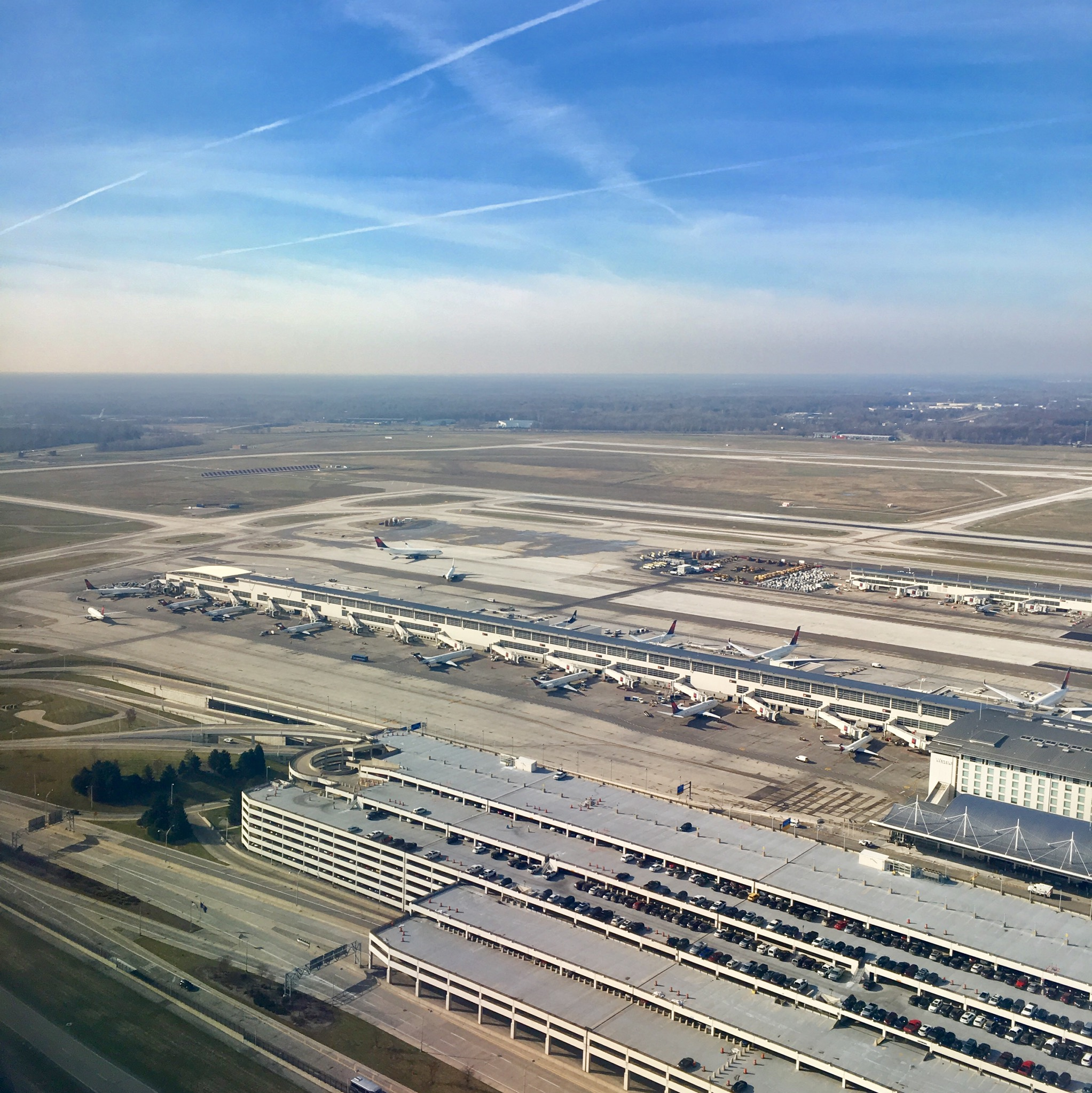 A view of the southern portion of DTW’s McNamara Terminal and it’s parking garage.